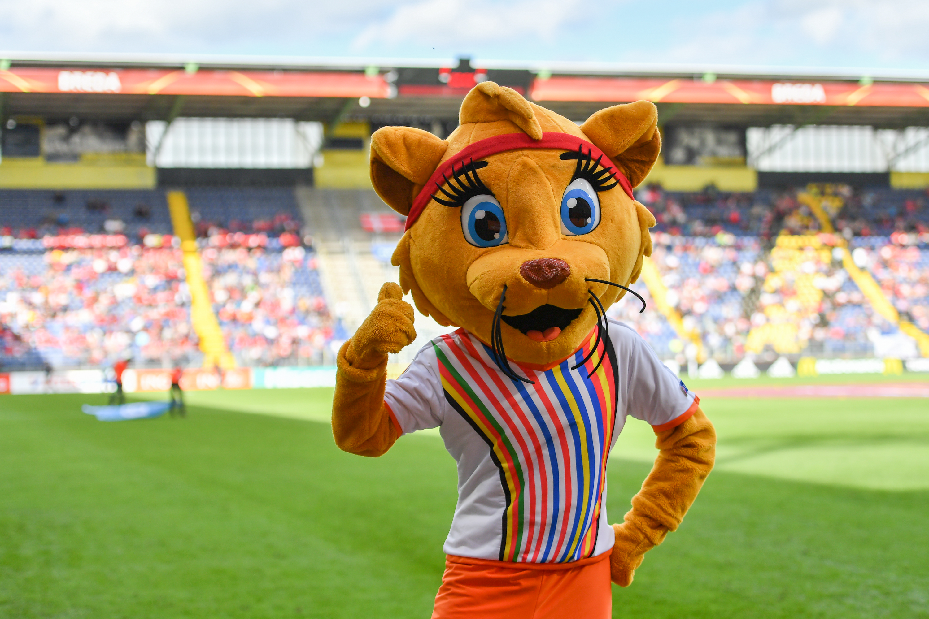 3/8/2017, Breda, Netherlands, sports, soccer, UEFA Women's Euro 2017 - Semifinal - Denmark vs Austria.